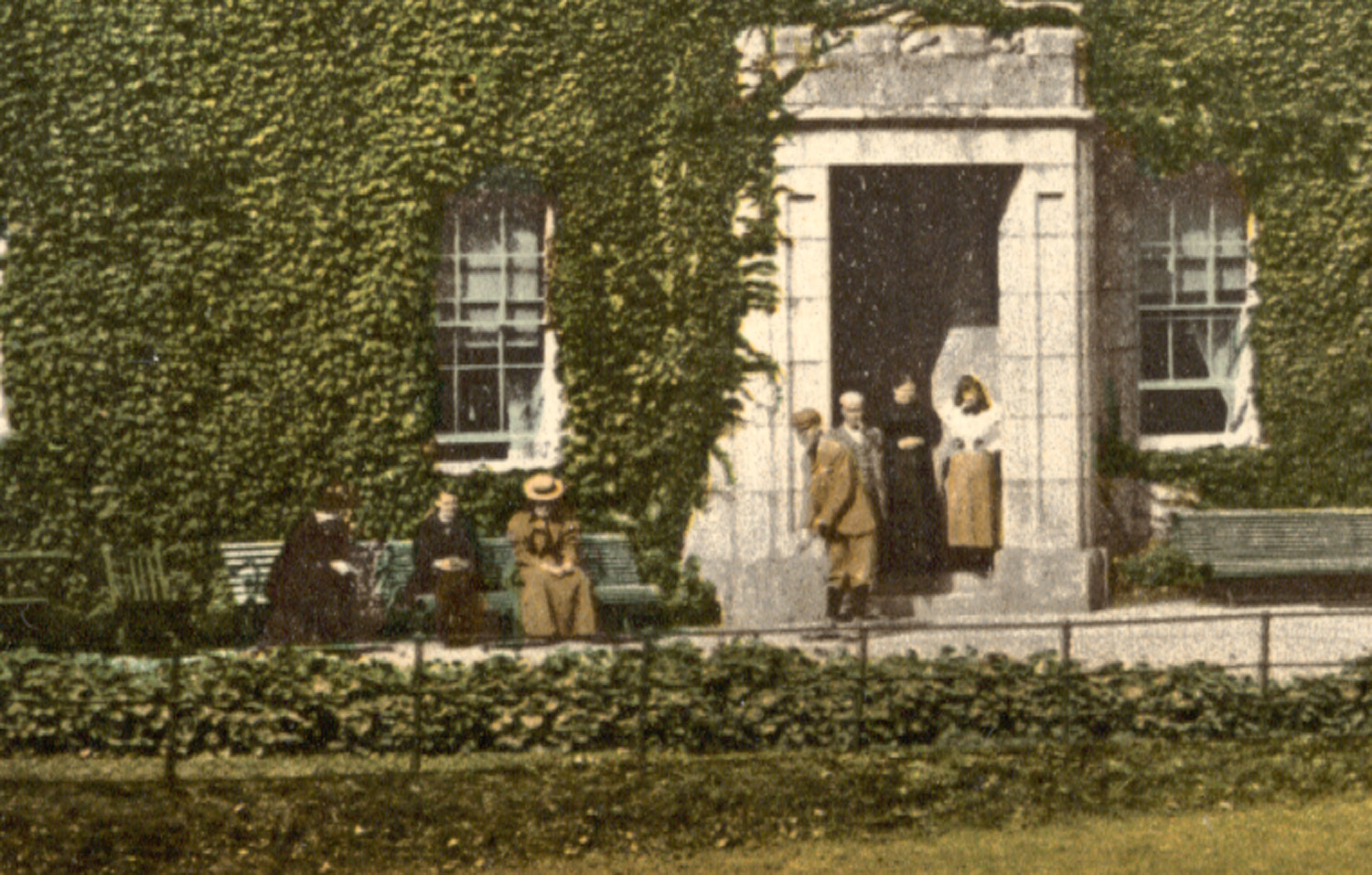 Tregenna Castle Hotel, Cornwall, circa 1890